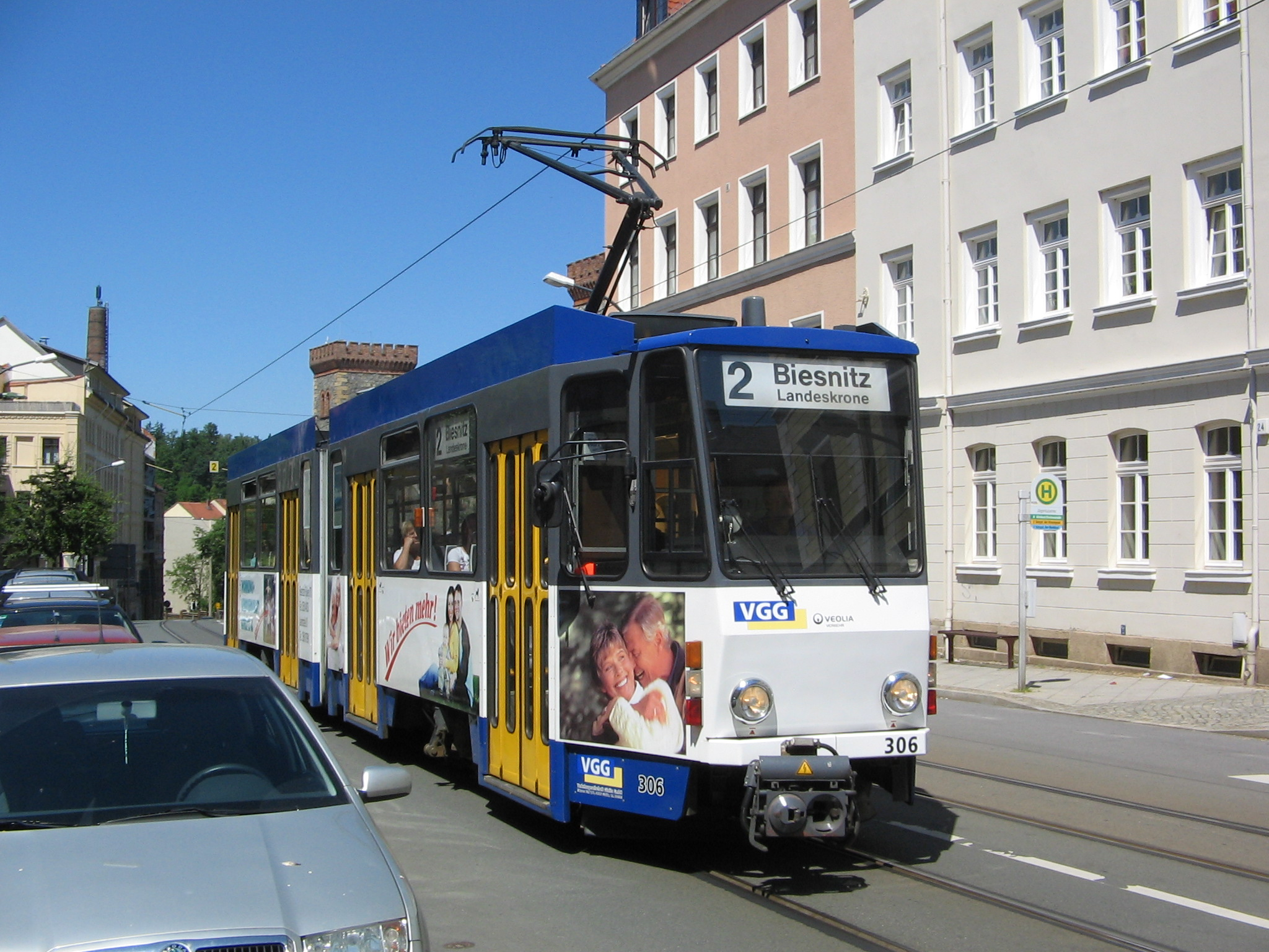 Streetcar No. 306 at stop "Jägerkaserne" in Görlitz